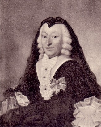 Ida Margrethe Reventlow, 2nd wife of Adam Christoffer Knuth